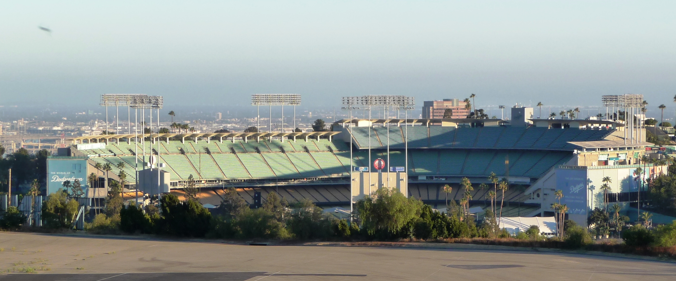 Los Angeles - Dodgers Stadium from Historic LAPD Academy